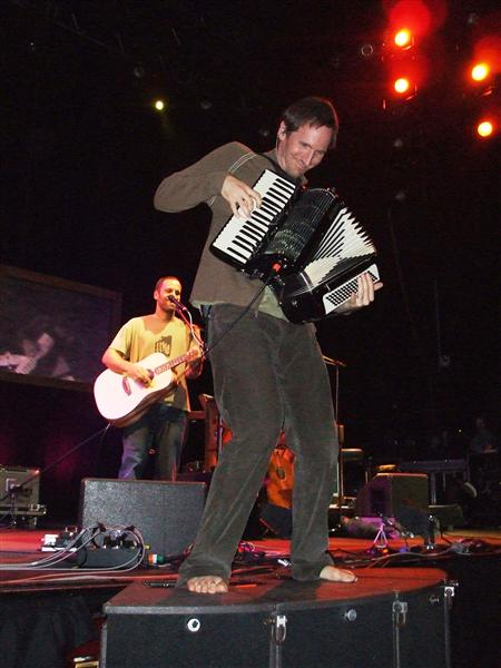 Zach Gill playing with Jack Johnson in Christchurch, March 2008.